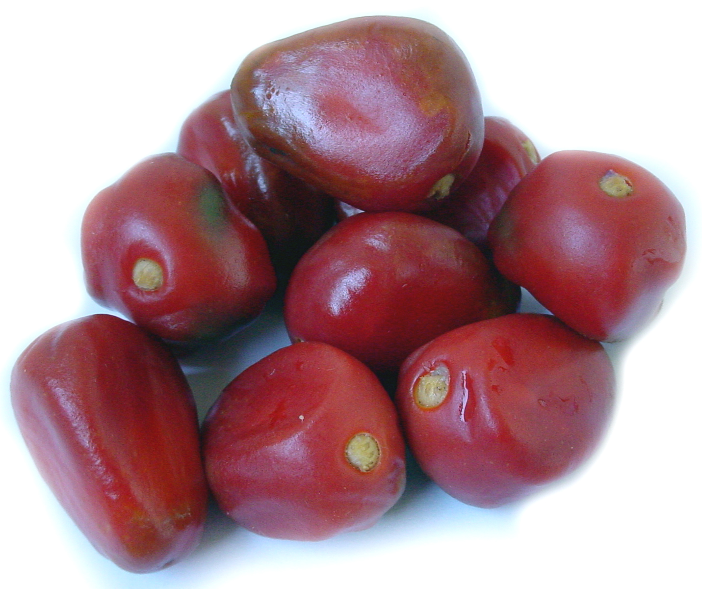 Stangeria seed